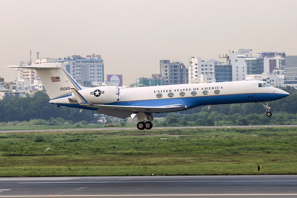 Aircraft Spotting In BANGLADESH By Murad Hashan